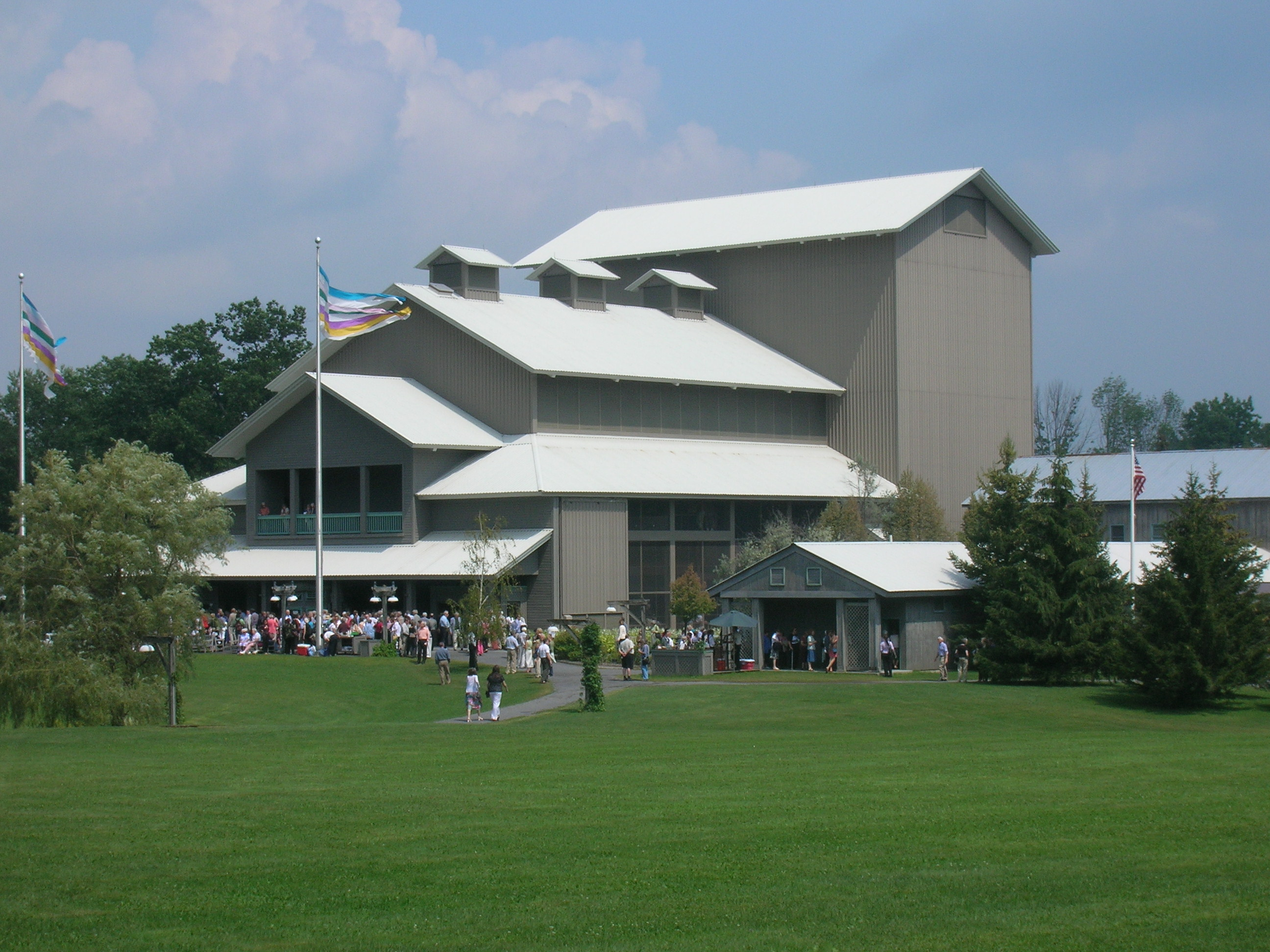 The facade of Glimmerglass Opera's Alice Busch Opera Theater, Springfield, New York, taken on 20 August 2006 by Kevin Burdette and released into the public domain on 21 August 2006 by the photographer.